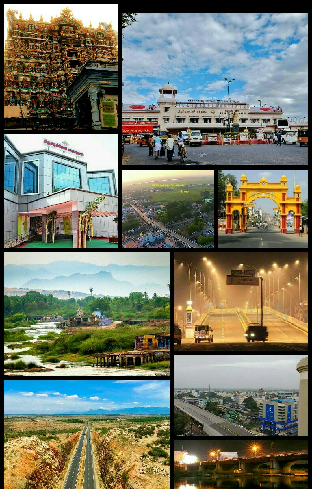 This image is a collage of Tirunelveli city which includes nellaipar temple, railway station, town arch ,thiruvalluvar bridge overview, Tirunelveli coporation , Thamirabarani river, rettiyarpetti road , chellapandian bridge , Junction river bridge